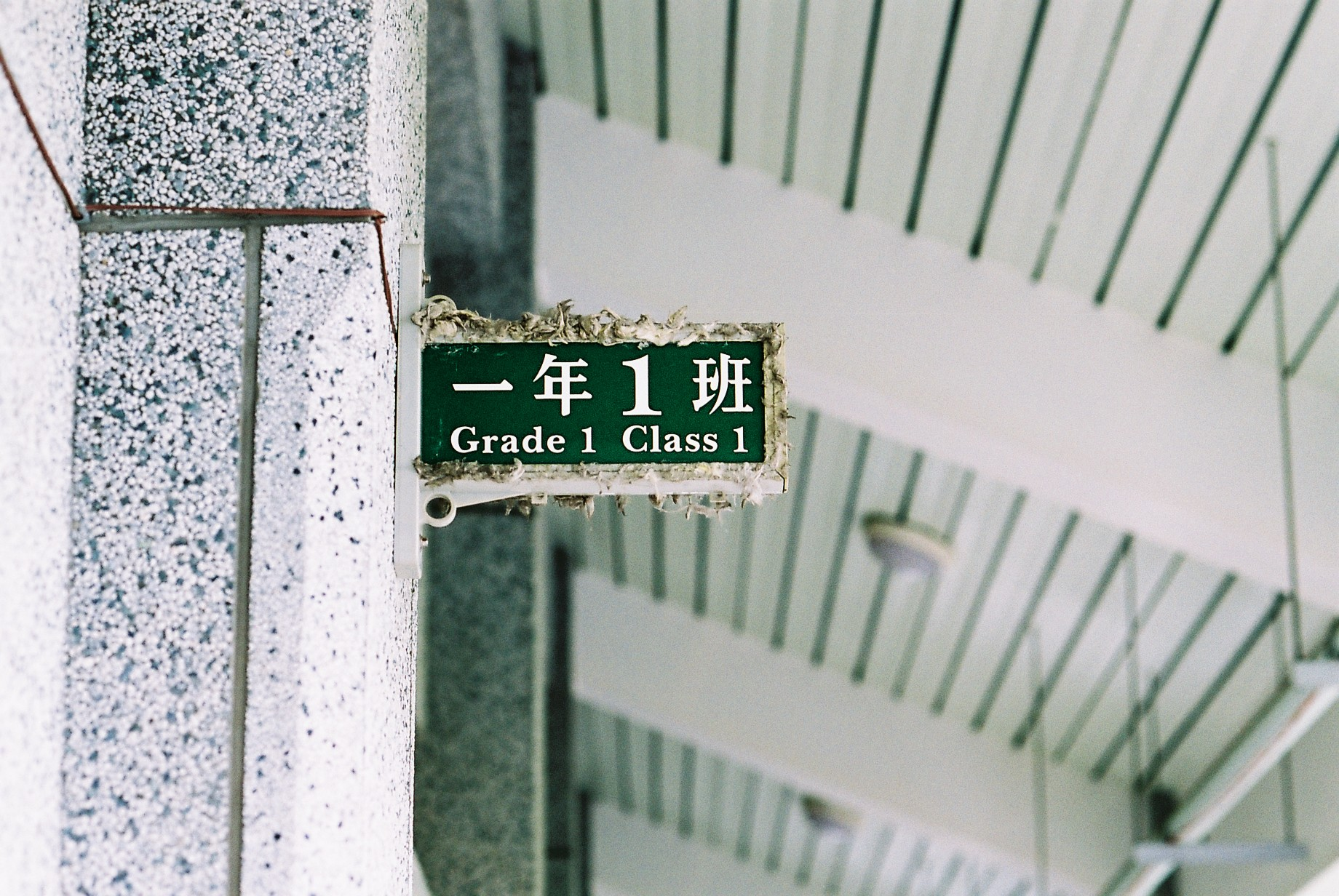 The classroom 101 of Chiayi County Da Ji Junior High School in Taiwan.